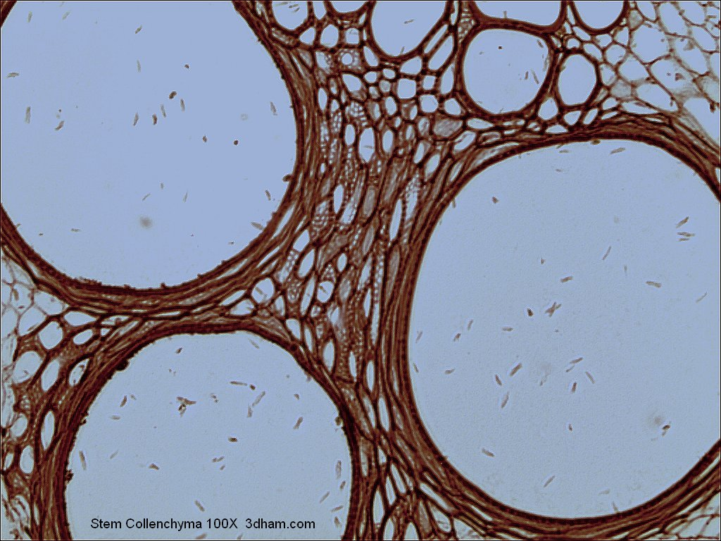 The Collenchyma is structural tissue that has elongated cells that have unevenly thickened walls. The different types of tissue found in this section have a diverse appearance when seen on a histological slide.